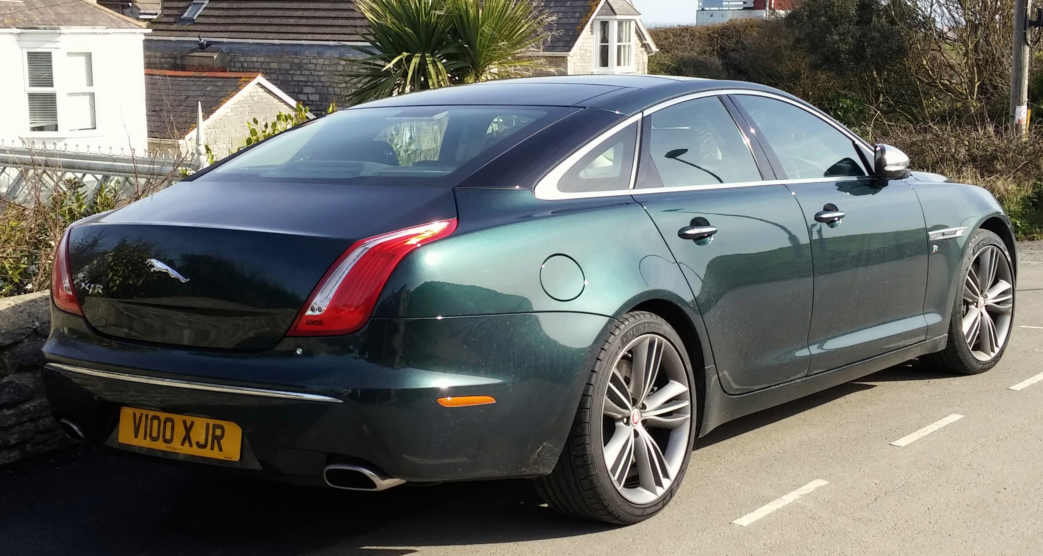 The 'R' badge isn't standard...